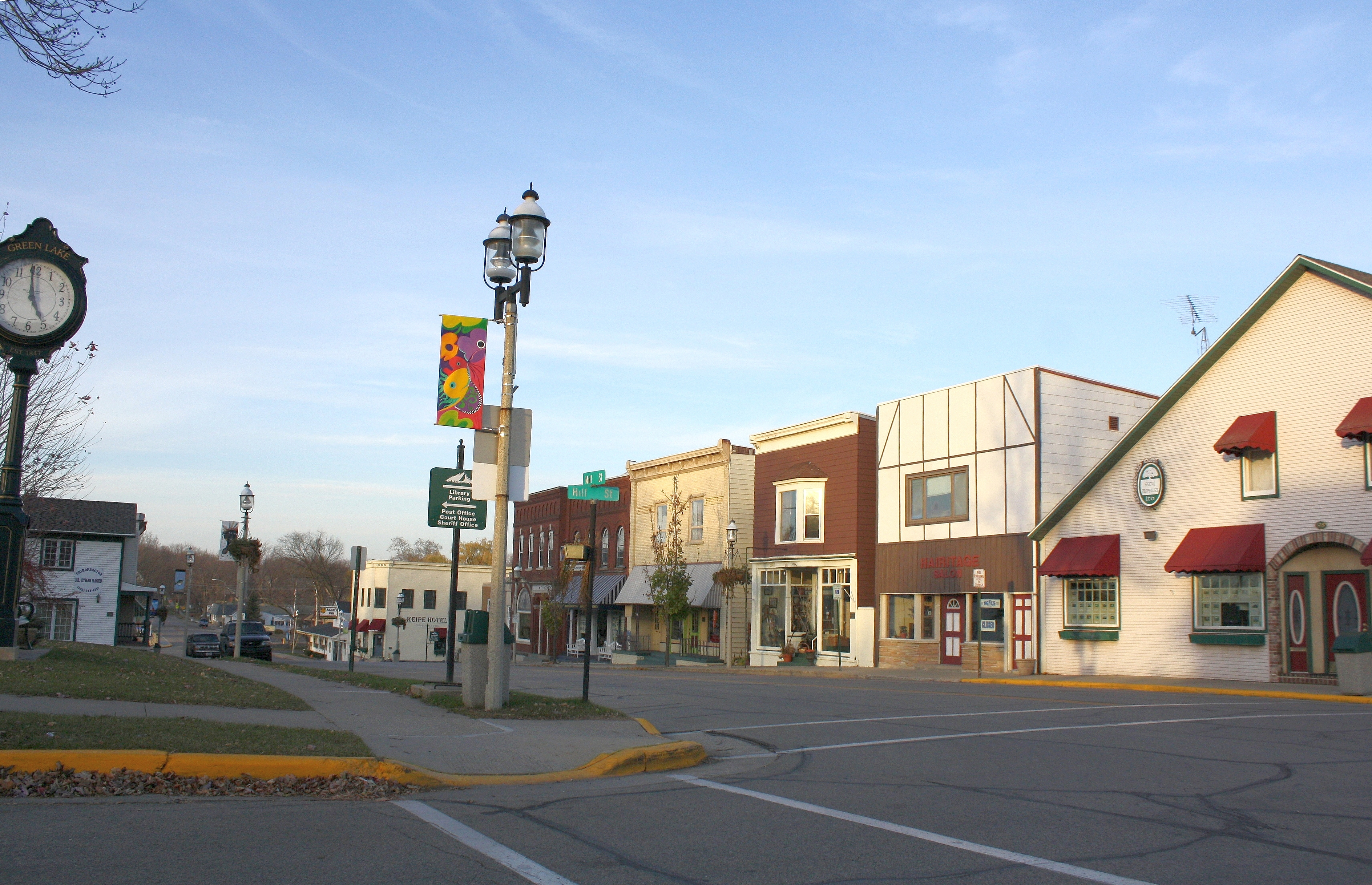 Looking north in Green Lake, Wisconsin near the county courthouse.